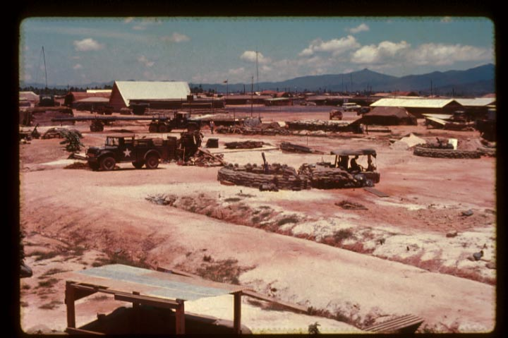 Landing Zone English North near Bong Son, Vietnam, 1968. The 19th Combat Engineer Battalion's "Seahorse Chapel" is visible on the left, the mess hall on the right, and the basketball court is between them.